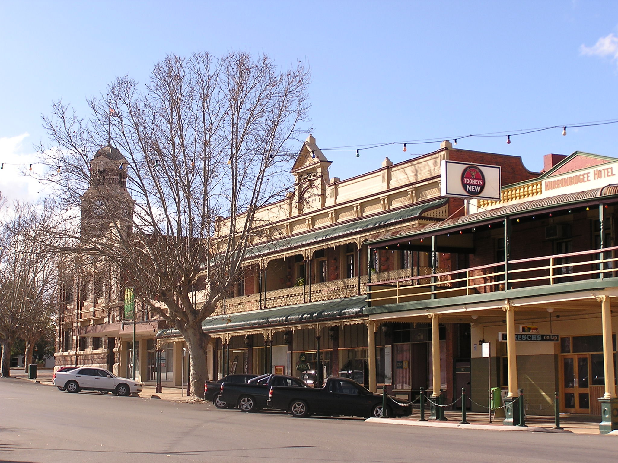 Jonsen's Building, which consists of five two-storey shops and residential accommodation, next to the Murrumbidgee Hotel at Narrandera, New South Wales, Australia